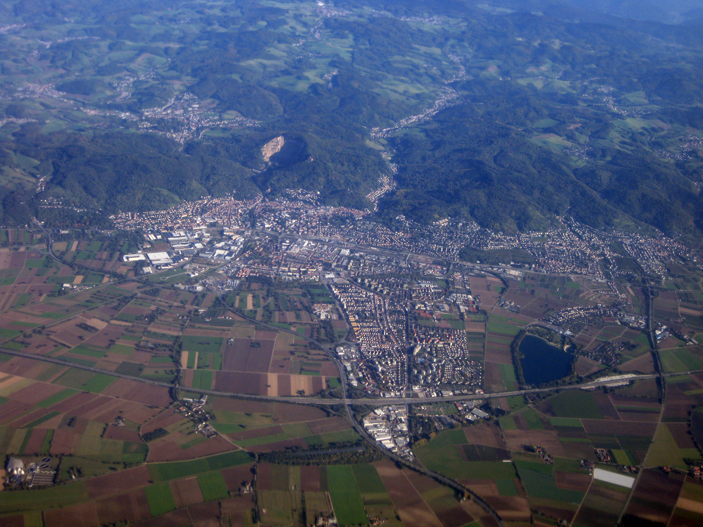 Weinheim an der Bergstraße, aerial photography